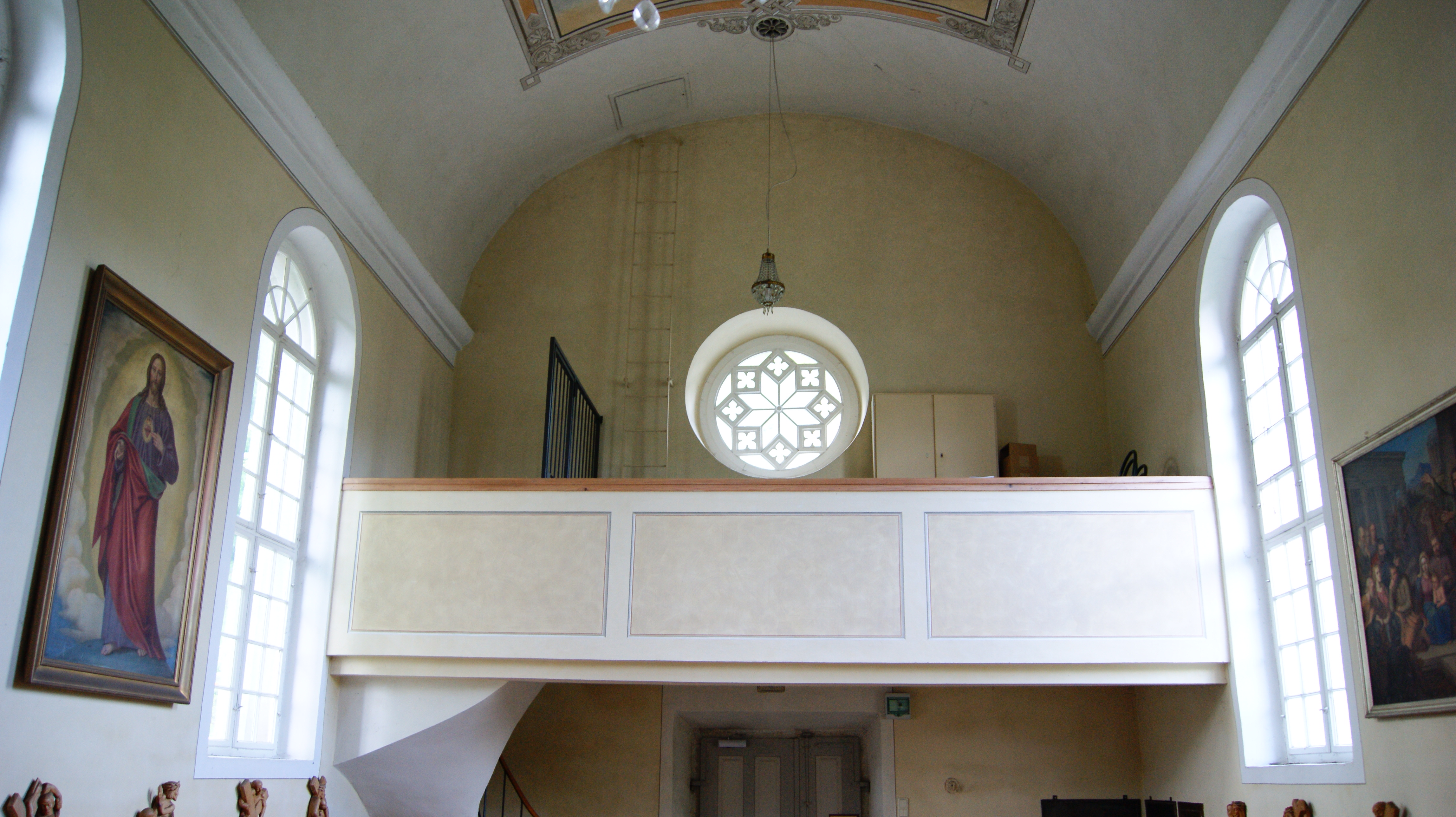 Chapel of the Holy Trinity and 14 helpers (Haselstauden) Kehlerstraße no 75a (Kehlen) in Dornbirn, Vorarlberg, Austria. The gallery.